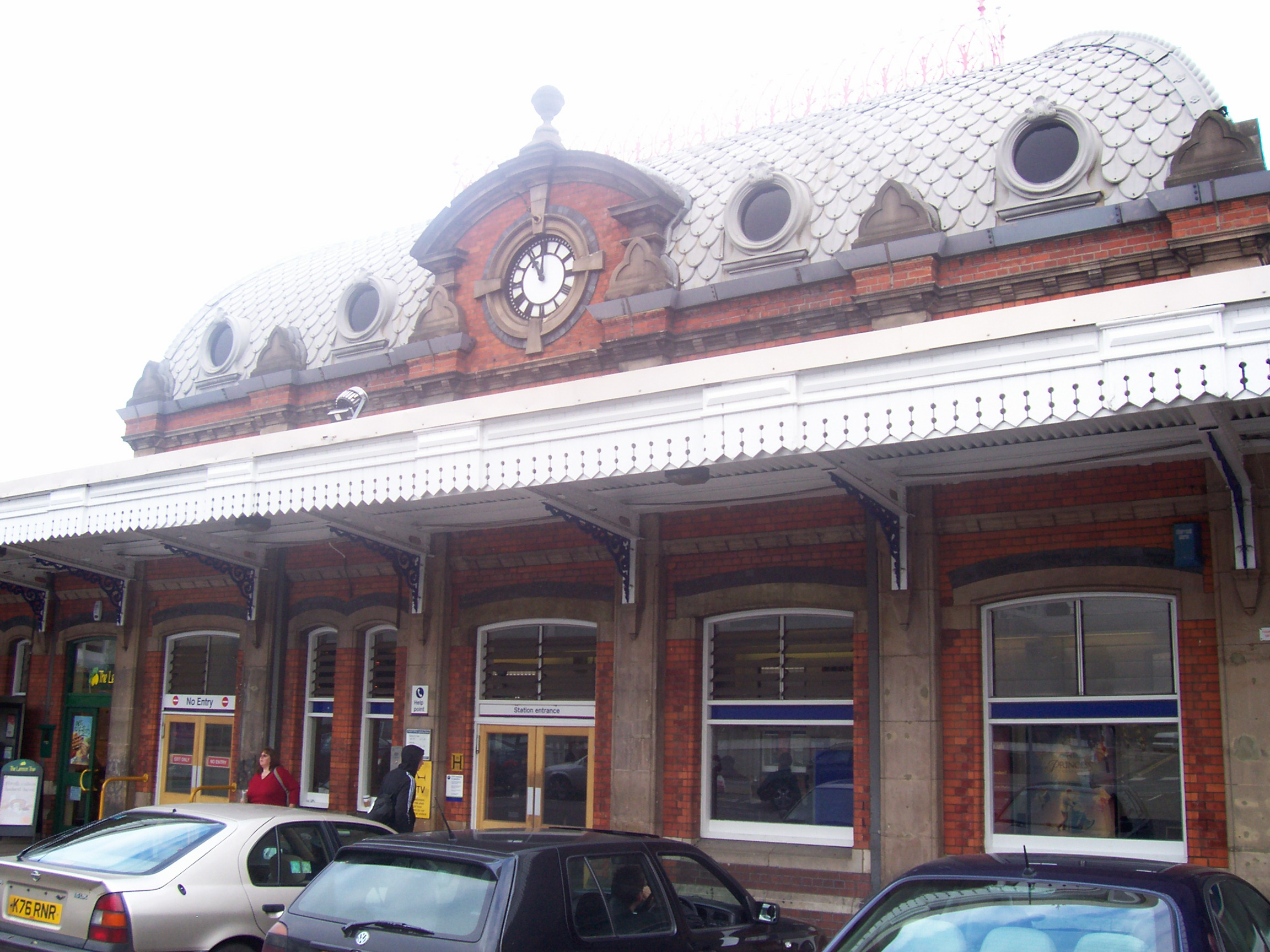 Released work into public domain. Originally uploaded to English Wikipedia. Original text: The railway station in Slough, England, taken by me on 18th October 2006.